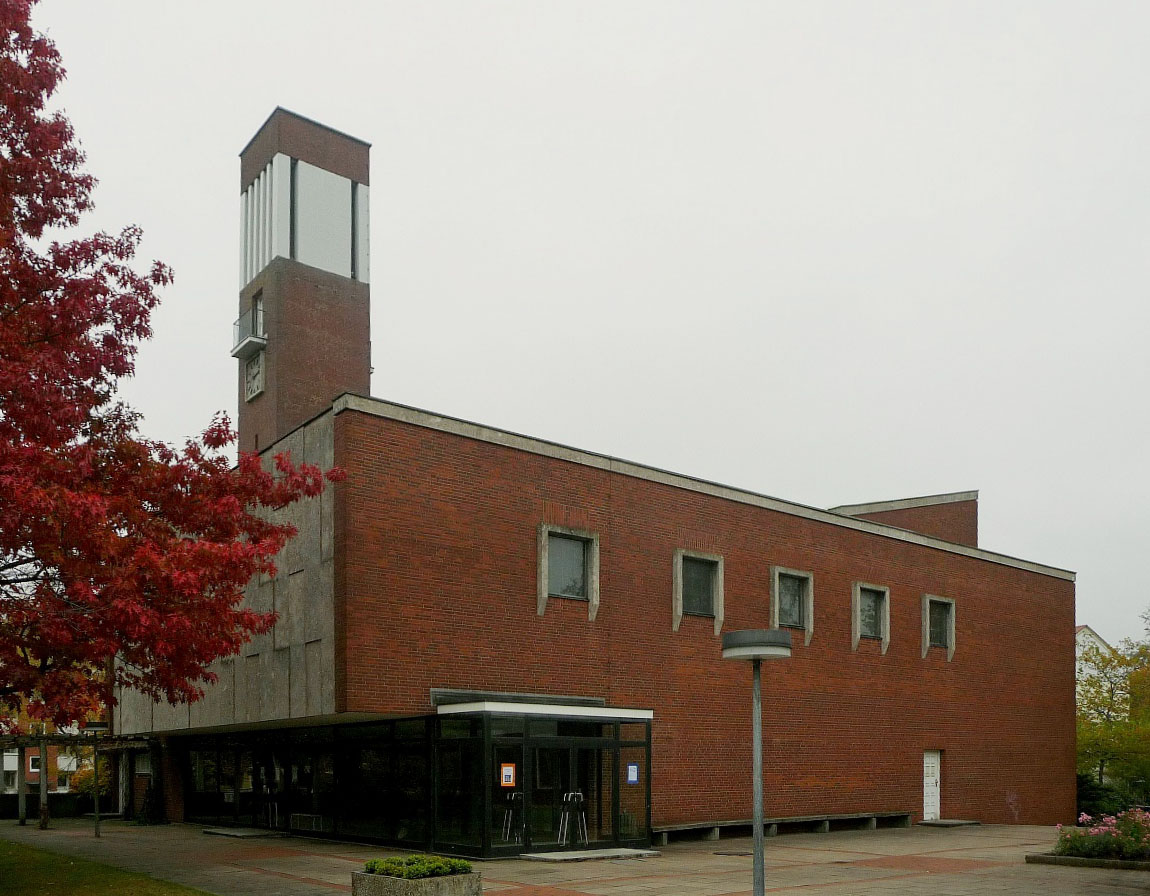 Söderblom-Church in Bremen-Burgdamm